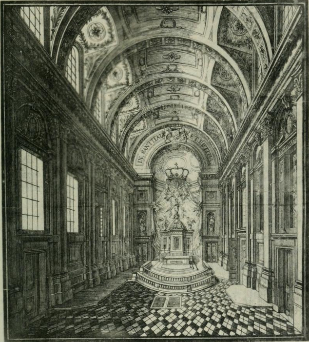 Rosary Chapel of the former dominican monastery of Brussels